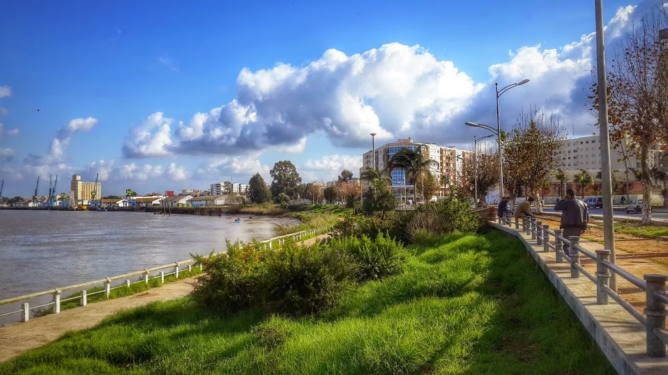 Sbou River - Corniche